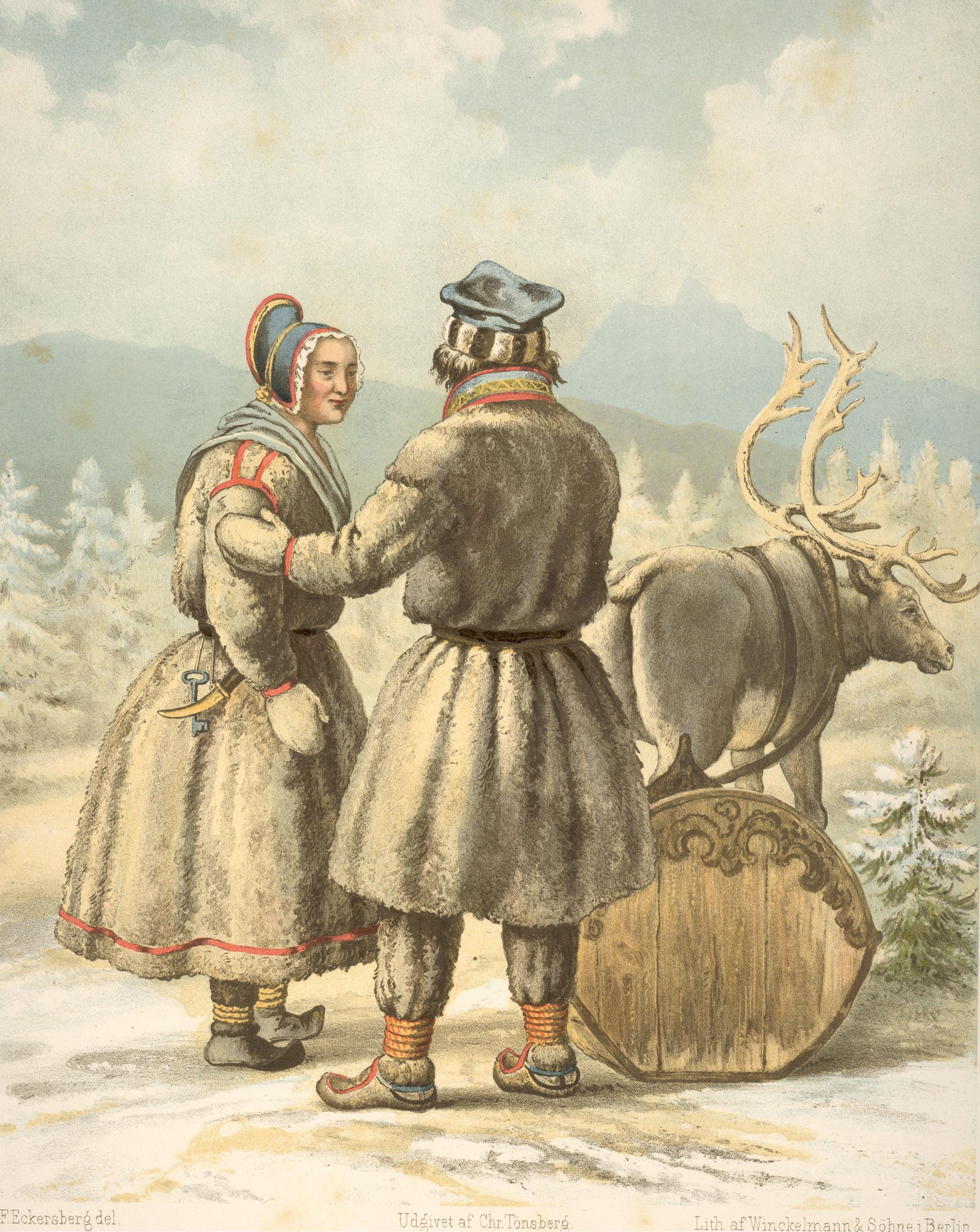 Sami people in winter garments in Karasjok, Norway.